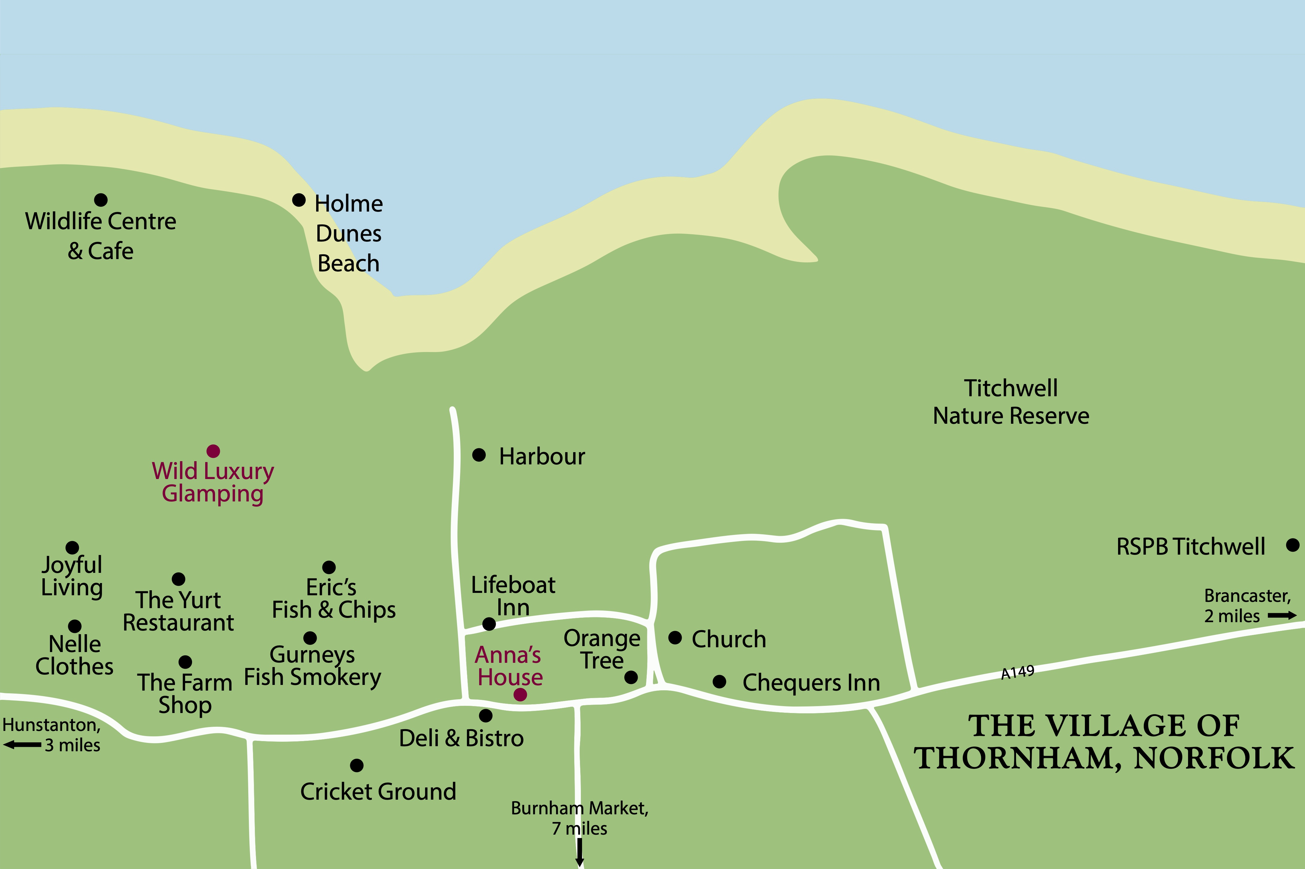 Map of Thornham Village Norfolk 2020 showing nature reserves, village amenities and local shops and pubs.